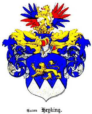 Coat of Arms of Heyking family